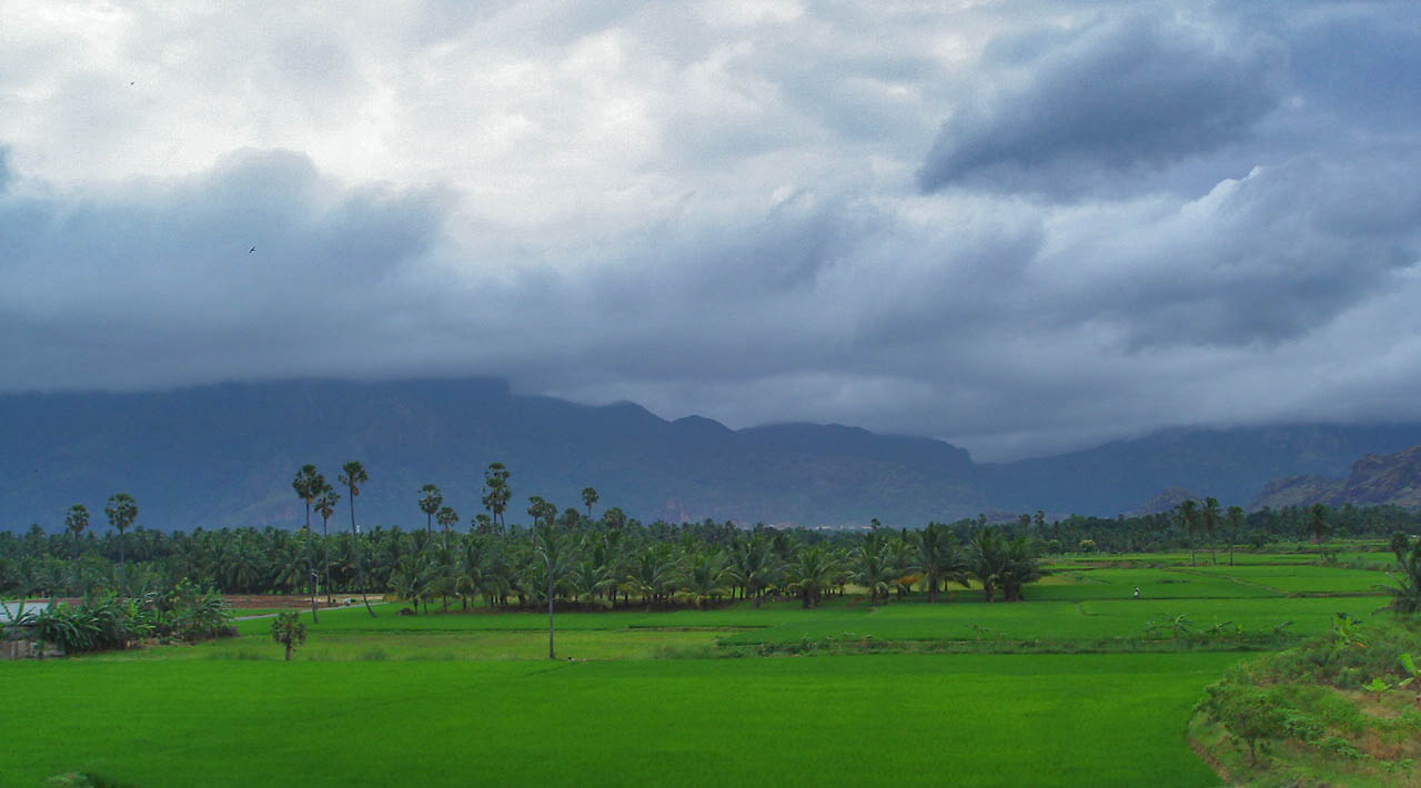 Lush green paddy fields between Aralvaimozhy and Nagercoil